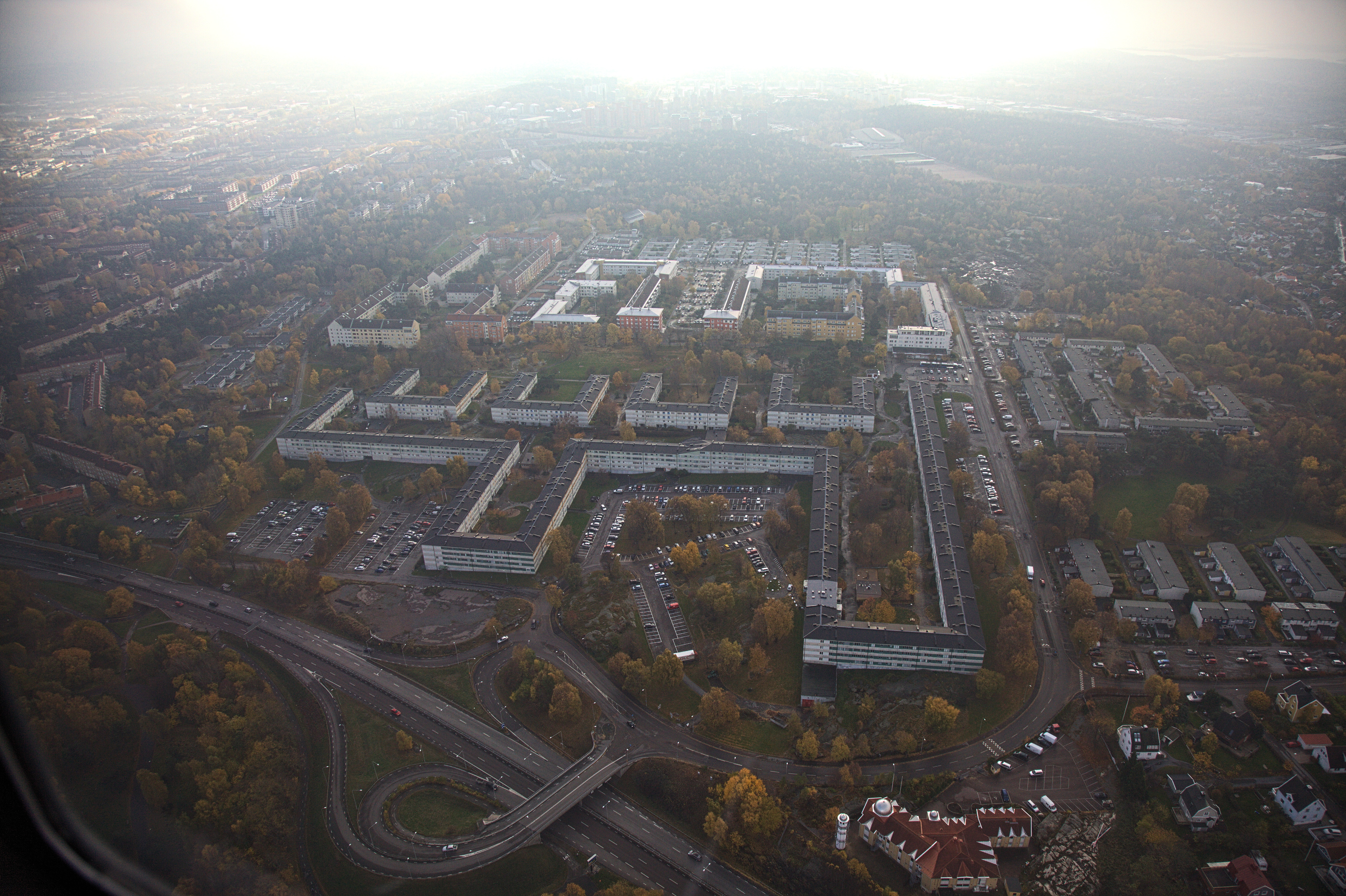 Photo taken on a helicopter over Gothenburg